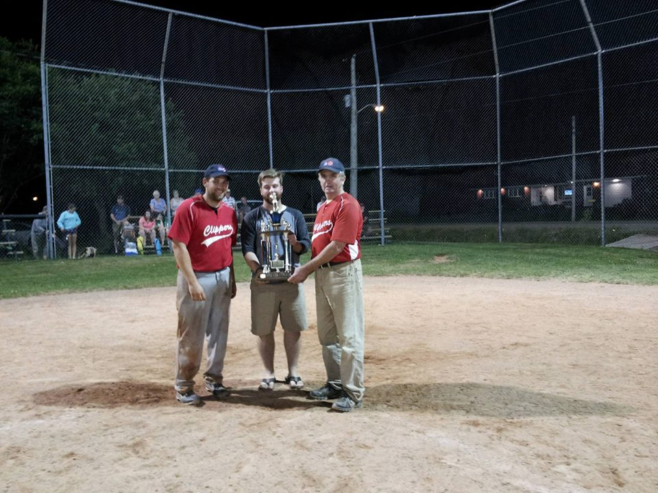 Trpohy